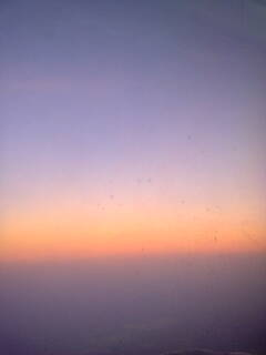 Aerial photo of the Red Twilight.